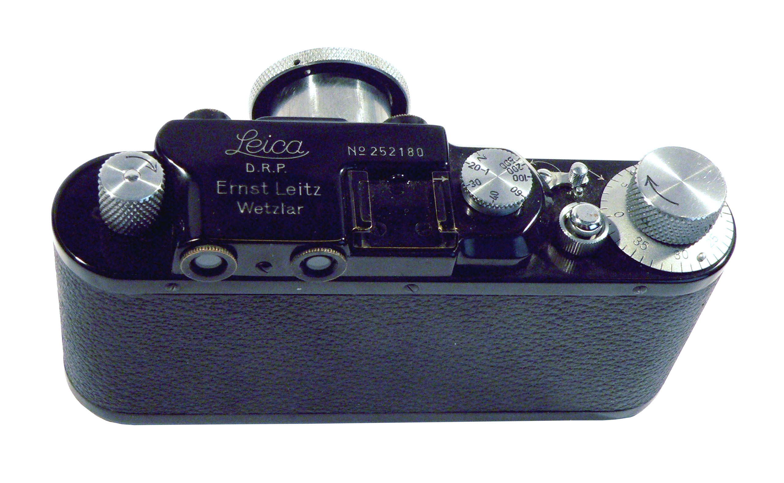 Leica II camera. Serial number 252 180, model from 1937.